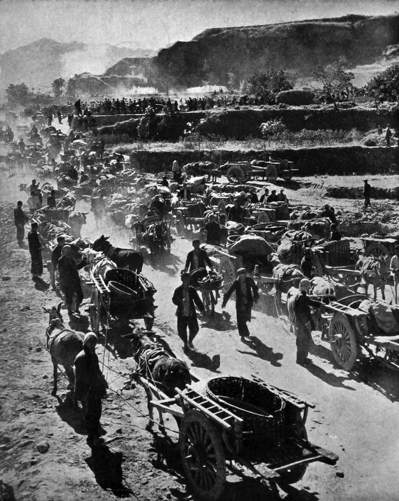 Carriages on the mine field.